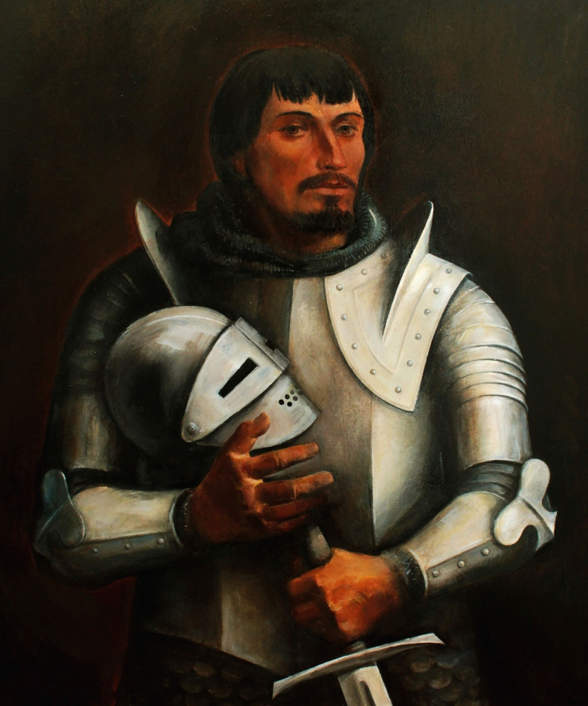 Prince Fruzhin of Bulgaria, painting by anonymous author, late XIX century, Sofia Art Gallery.